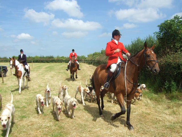 The local hunt arrives at the show.